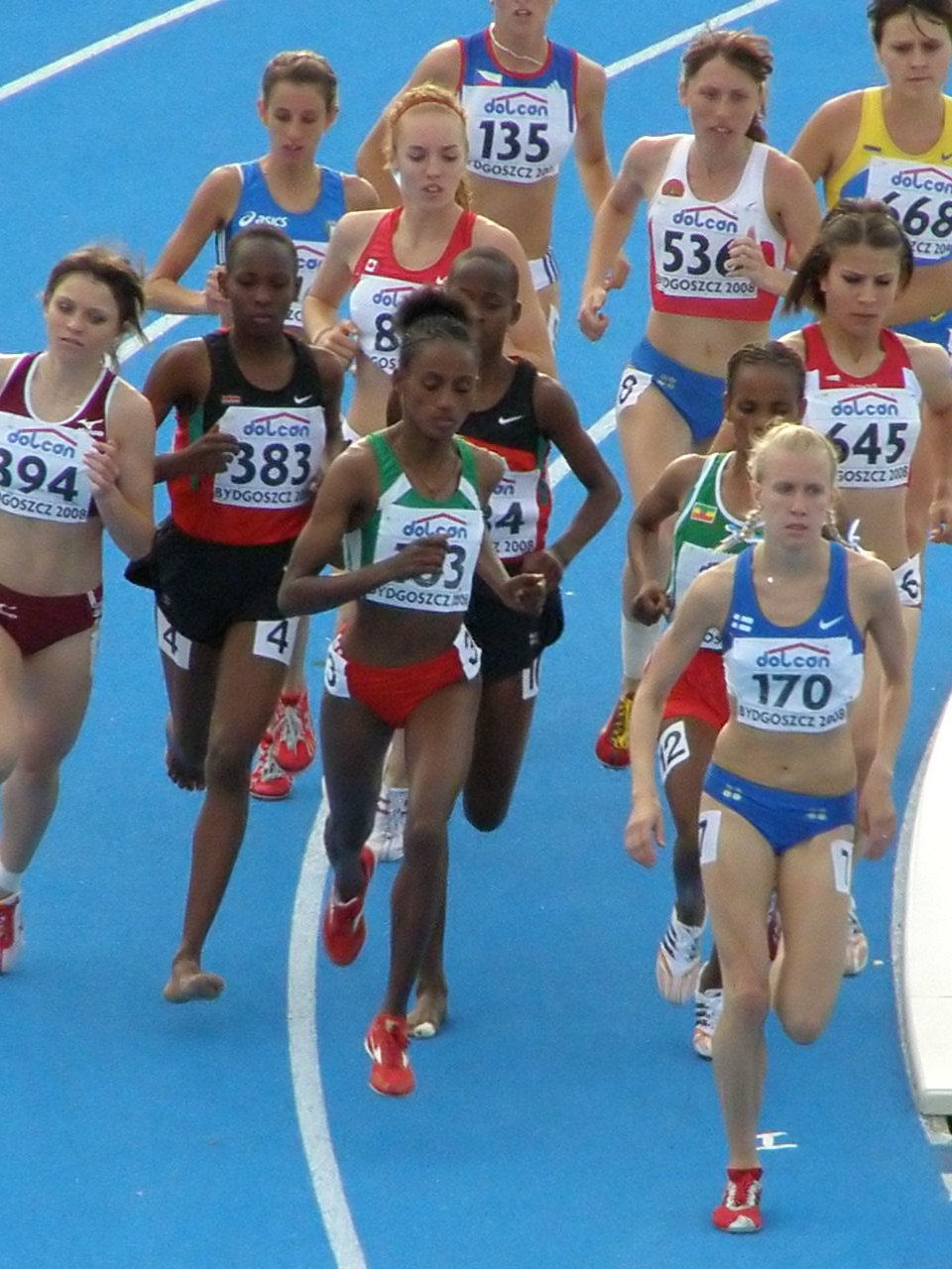 2008 World Junior Championships in Athletics - Steeplechase (final)